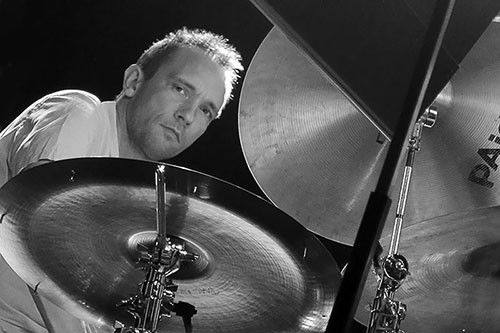 Paal Nilssen-Love playing with his band Large Unit in Aarhus, Denamrk 2015